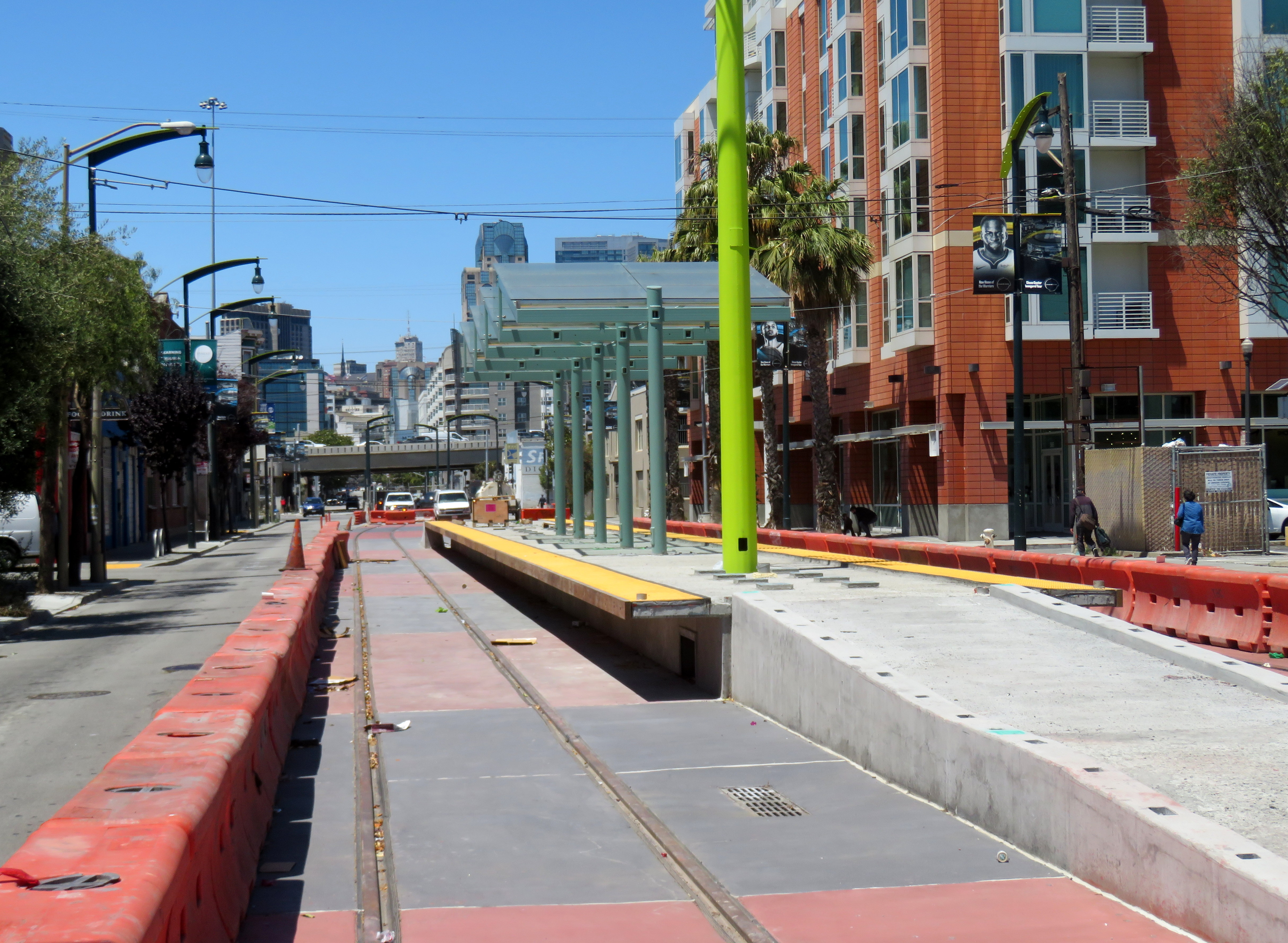 Construction of 4th and Brannan station in July 2020